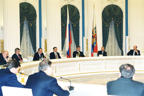 THE KREMLIN, MOSCOW. President Putin meeting representatives of the Russian Union of Industrialists and Entrepreneurs.